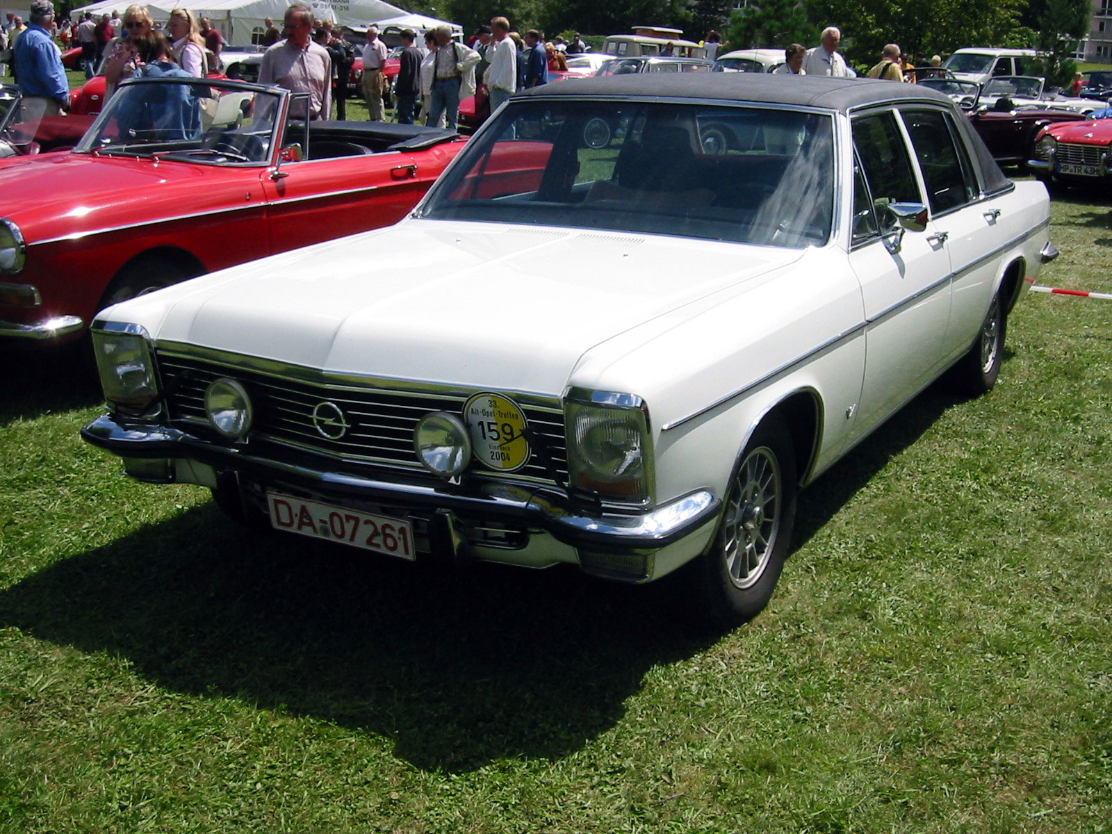 Opel Diplomat B (1969-1977)